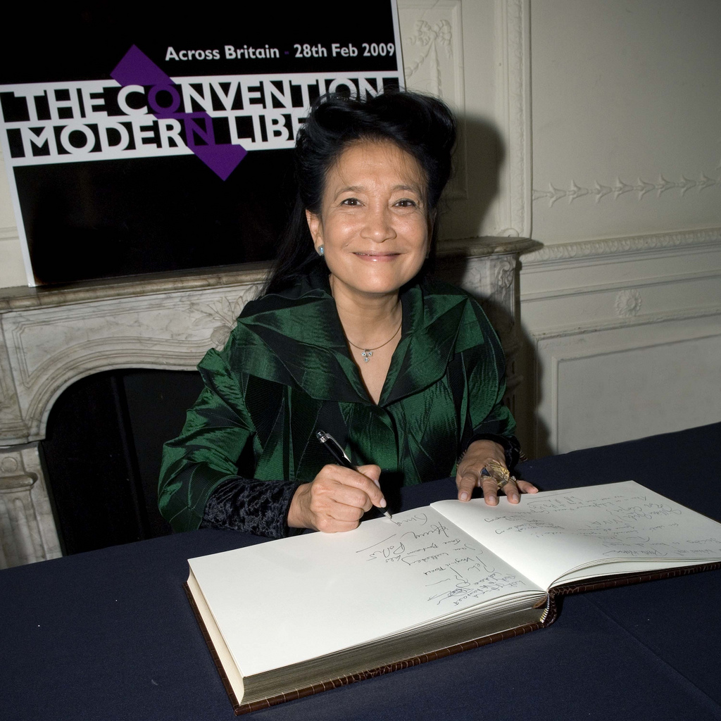 Jung Chang. She signs to pledge support to the Convention on Modern Liberty at the start of a campaign. The launch took place at The Foreign Press Association in Pall Mall, London, on 15 January 2010.